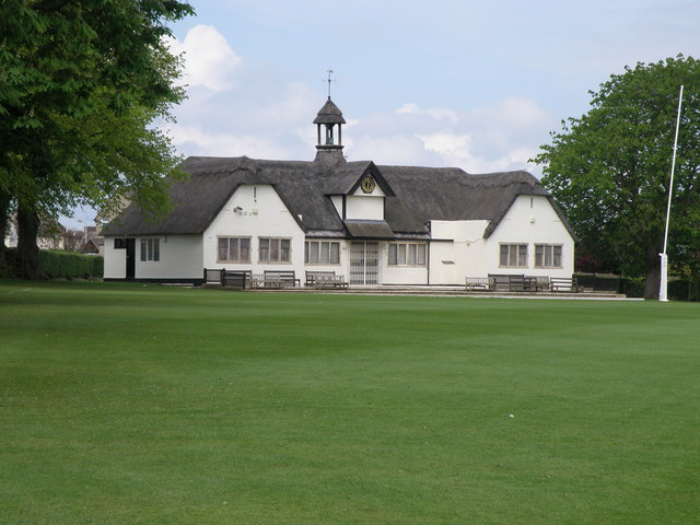 Uppingham school cricket pavilion Former pupil Jonathan Agnew now BBC cricket correspondent undoubtedly made the journey to the square and back from this fine looking Pavilion. I wonder if Stephen Fry (writer and actor) made the same journey before he was expelled.